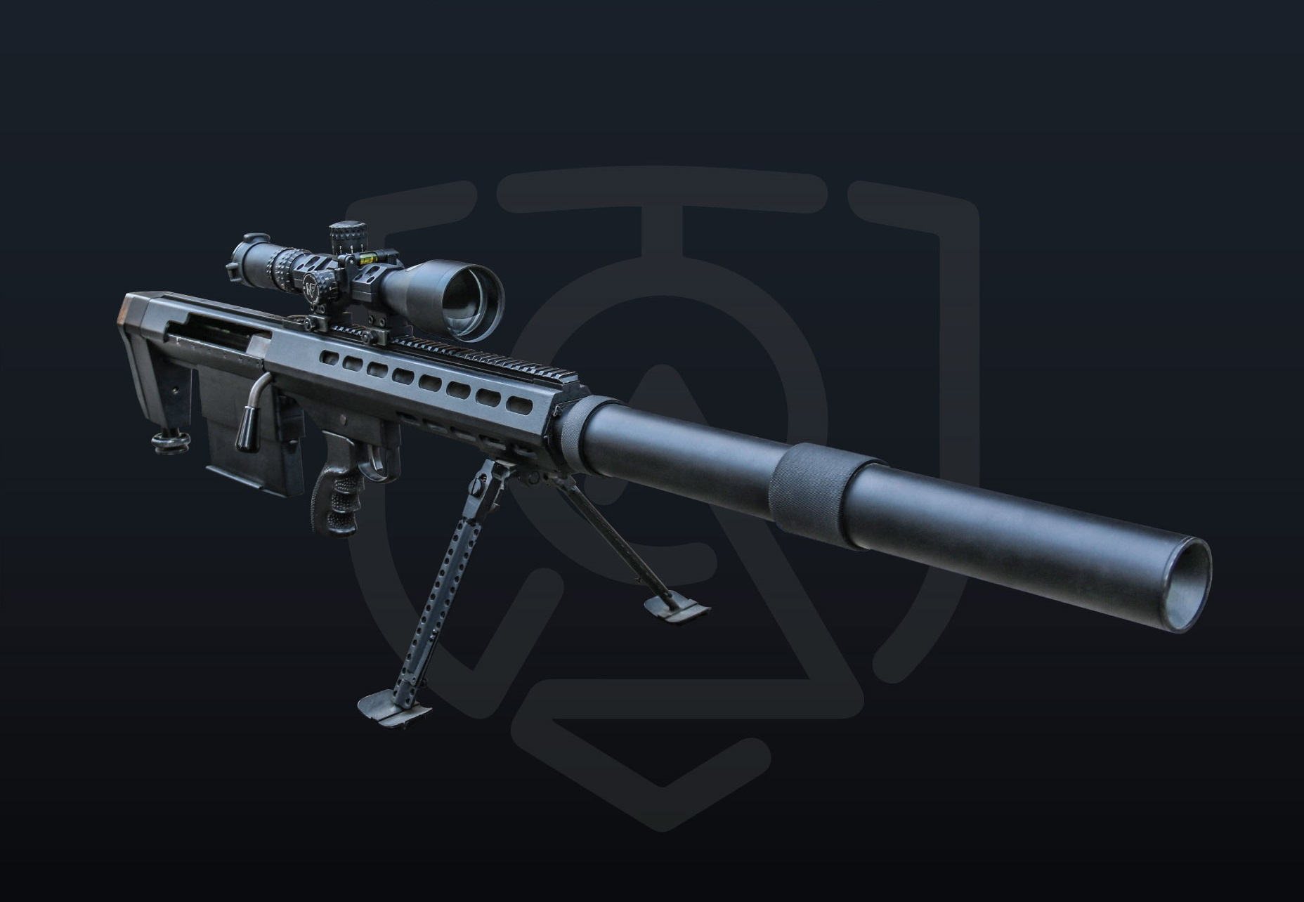 georgian made Anti-materiel rifle Amr-mod-2